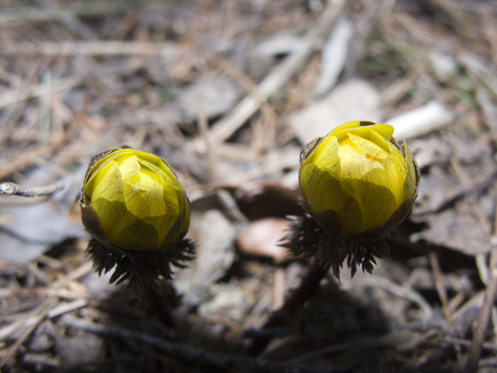 Adonis amurensis to bear buds